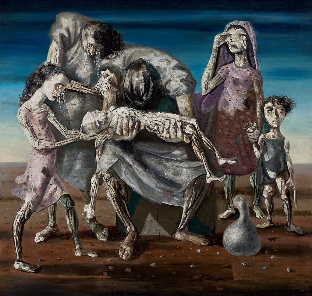 The painting shows a family of northeastern brazilians affected by the Grande Seca ("Great Drought") that occurred between 1887 and 1889. One children died of inanition.